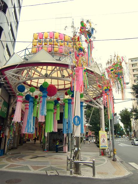 Pearl Center Entrance, Asagaya Suginami, Tokyo